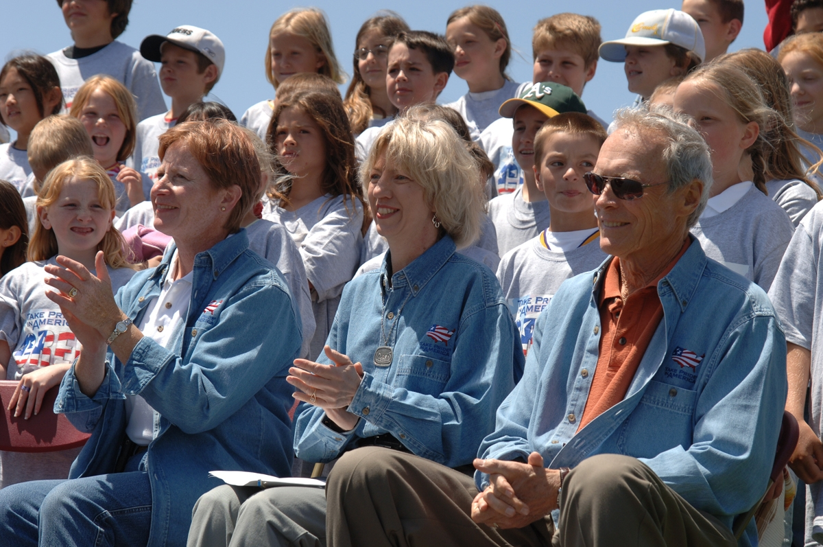 Take Pride in America executive director Marti Allbright, Interior Secretary Gale Norton and actor/director Clint Eastwood joined the celebration with students of Carmel River School, which was designated the nation's first Take Pride in America School.